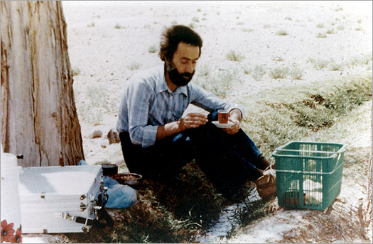 سهراب سپهری در روستای چنار